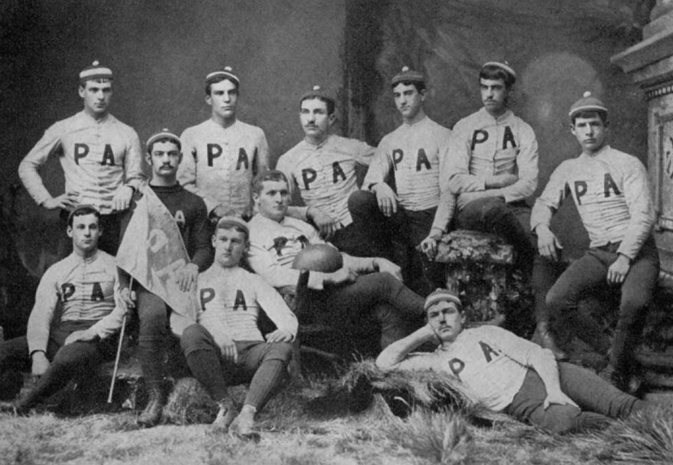 The 1883 Andover football squad. Photo appeared in Claude Moore Feuss's book An Old New England School: A History of Phillips Academy Andover. Note: Year is correct; month and day are approximate.